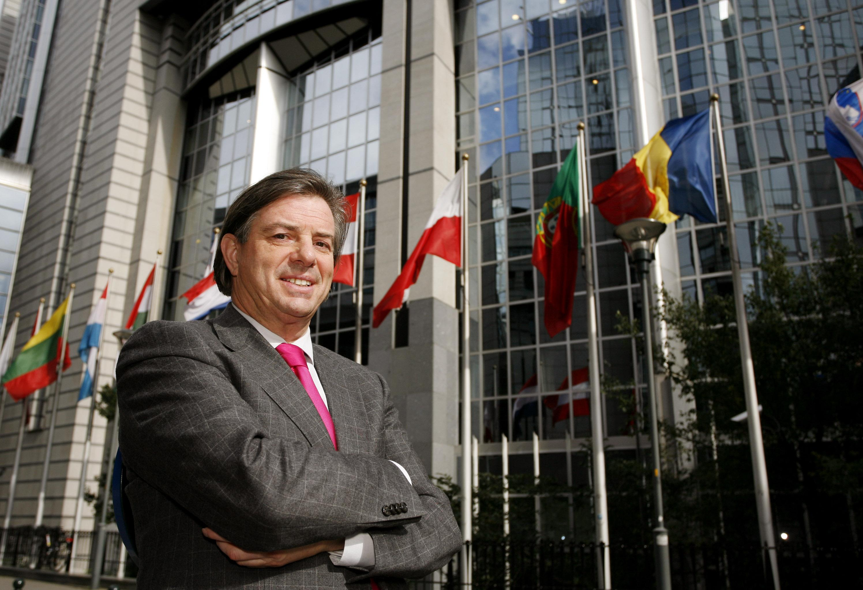 Toine Manders (VVD)